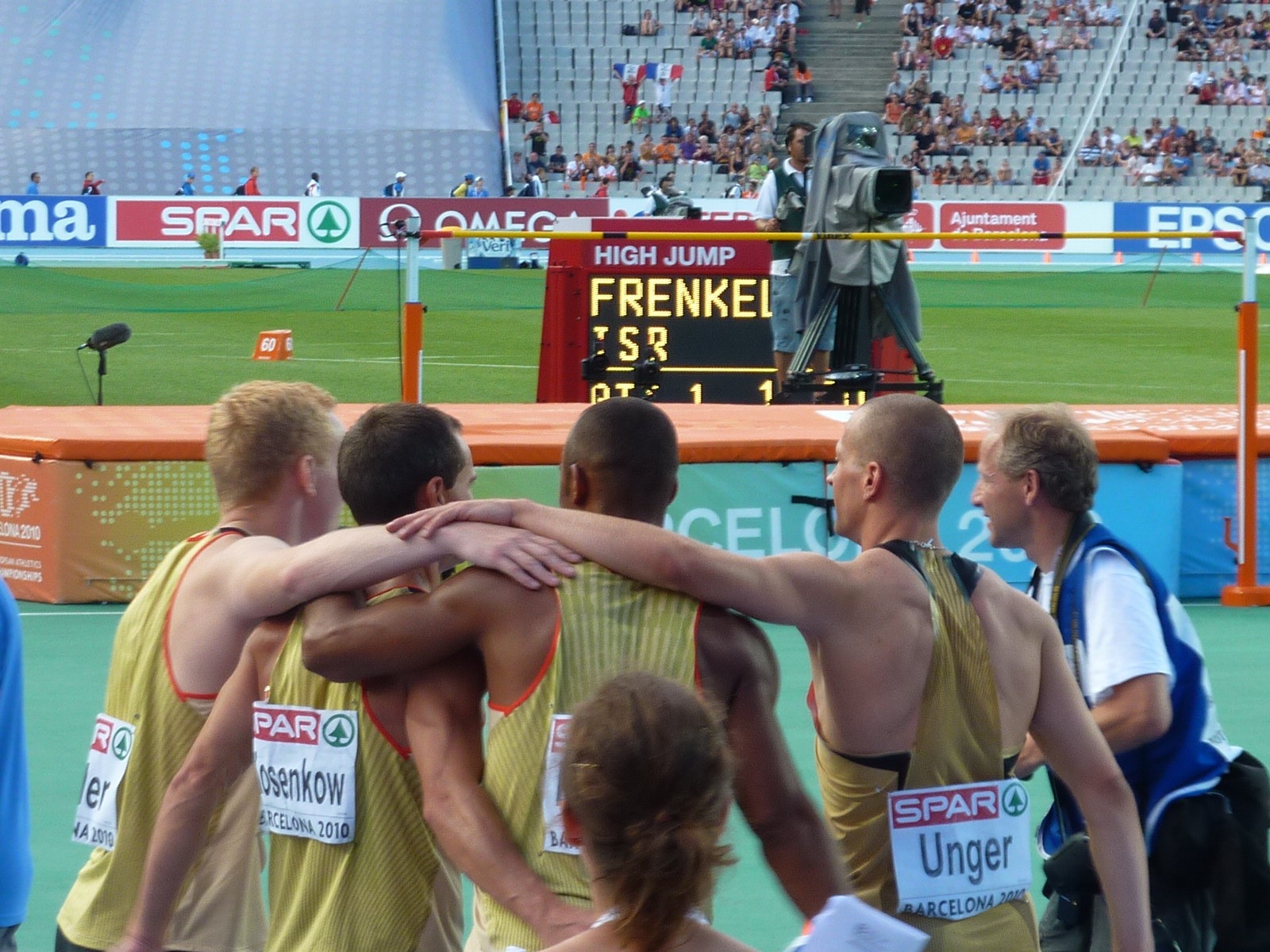 4x100m relay final (Germany)